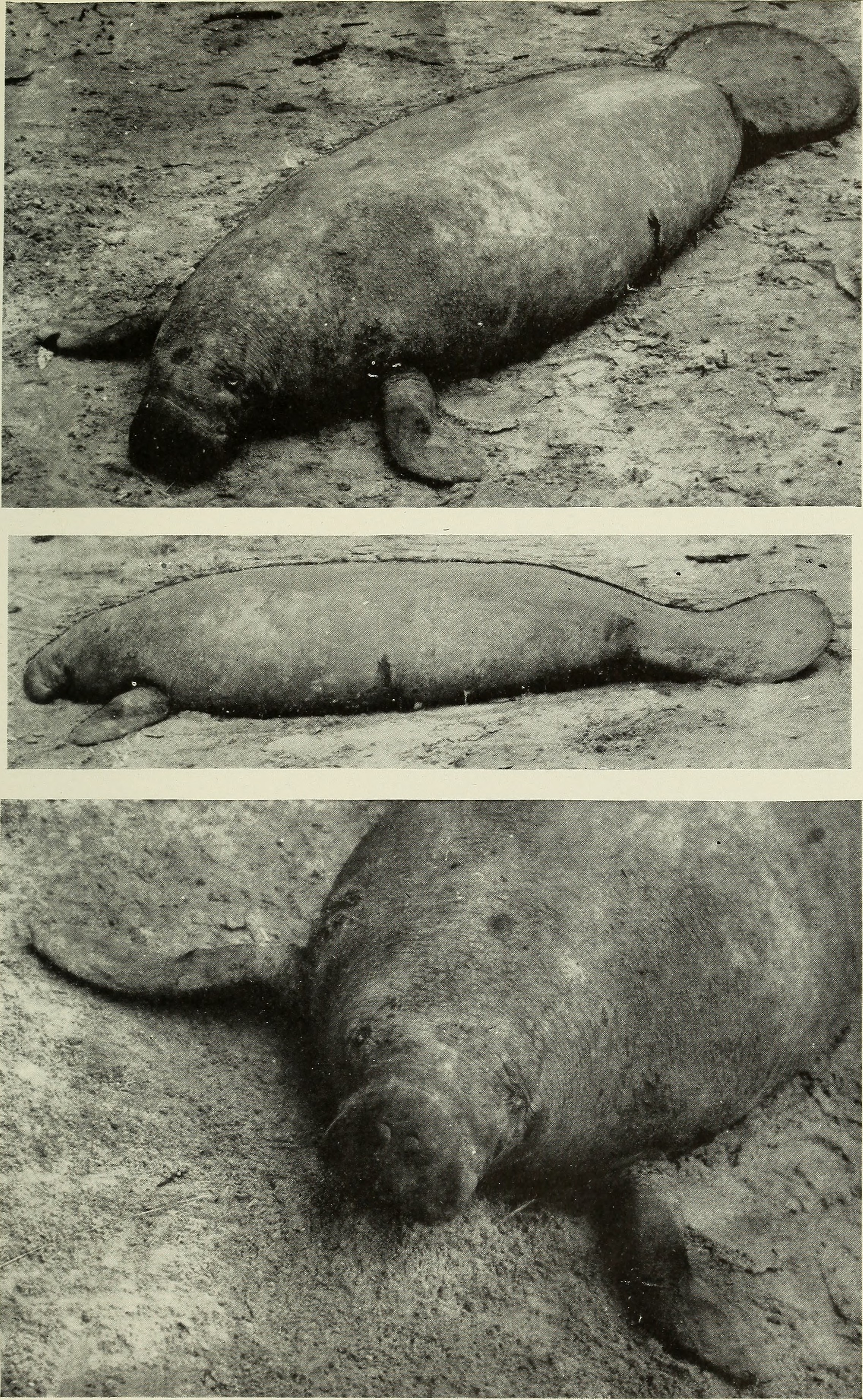 Title: The Congo Expedition of the American Museum of Natural History Year: 1919 (1910s) Authors: Osborn, Henry Fairfield, 1857-1935; American Museum of Natural History Subjects: Natural history; Mammals Publisher: New York : American Museum of Natural History Text Appearing Before Image: Bulletin A. M. N. H Vol. LXVI, Plate XXVII Text Appearing After Image: '